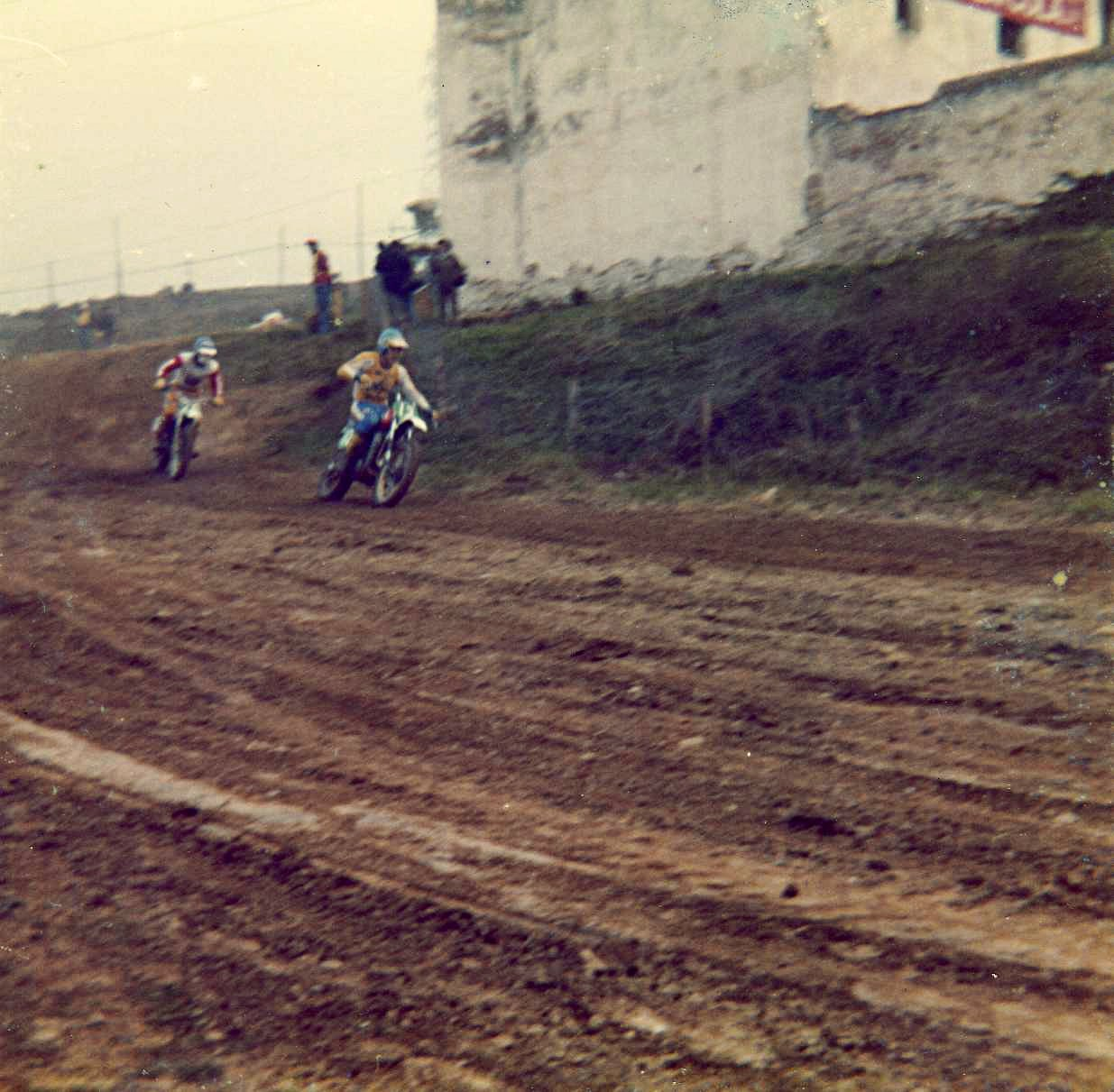 Hakan Carlqvist (Husqvarna) followed by Fernando Muñoz (Montesa) while practicing at Circuit del Vallès, Sabadell-Terrassa (Catalonia), during the 1978 spanish MX GP 250cc.